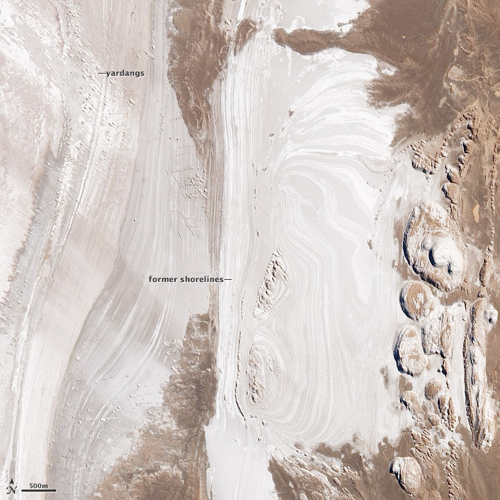 In the arid, high plateau of Argentina’s Salta province, just east of the Atacama Desert and the eastern cordillera of the Andes Mountains, dry lake beds indicate a time when the landscape was bathed in water. Today it is dry rock crusted in salt—the remnants of evaporation, baking sunlight, and fierce winds. This is the Salar de Arizaro. This image of the Arizaro salt flats was acquired on April 7, 2013, by the Advanced Land Imager on NASA’s Earth Observing-1 satellite. Thin, parallel lines cut north-south across much of the image, bathtub rings showing the positions of past shorelines when the lake still had water. In the upper left corner, small rounded bumps in the landscape are yardangs, dusty hills formed when soft rocks are weathered and abraded by winds. The yardangs are aligned precisely with the southwesterly winds. On the right, bulbous hills have sharps edges, a formation typical of salt weathering around the base. During salt weathering, rocks are eroded by repeated salt crystal growth. The eroded material has been blown away by the strong winds of the high desert, leaving the sharp edge. Spanning more than 1,600 square kilometers (600 square miles), Salar de Arizaro is the sixth largest salt flat in the world. The region is rich in salt formed between five to ten million years ago, when a salty inland sea may have covered the land. Iron, marble, onyx, potassium, boron, and copper are also relatively abundant.